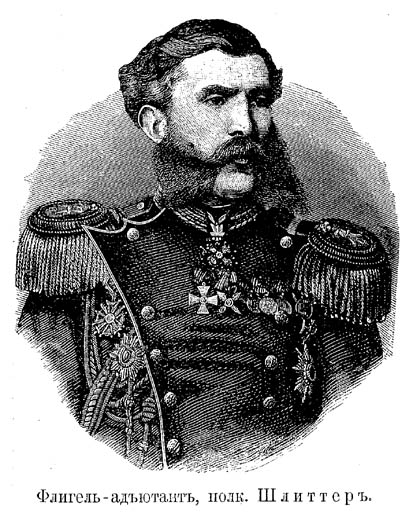 Shlitter, Nikolay Petrovich (1834—1877) — colonel.